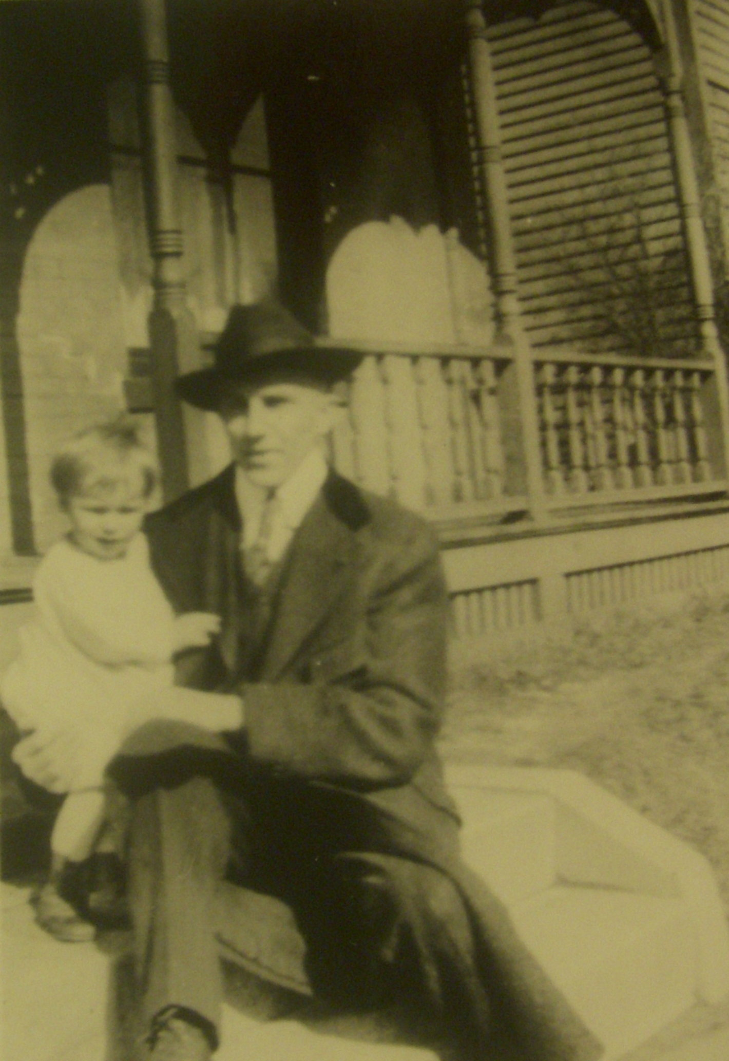 A very early (compared to what?) photo of a Milwaukee Avenue resident in Minneapolis.